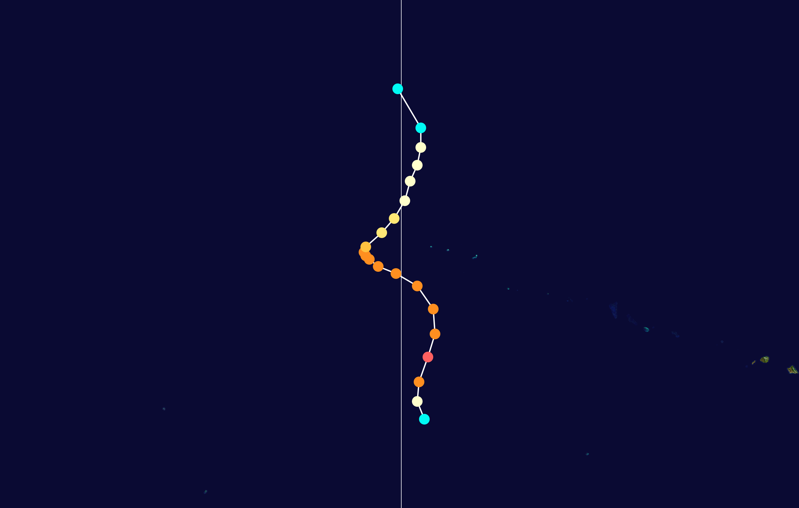 Track map of Hurricane Patsy of the 1959 Pacific hurricane season. The points show the location of the storm at 6-hour intervals. The colour represents the storm's maximum sustained wind speeds as classified in the Saffir–Simpson scale (see below), and the shape of the data points represent the nature of the storm, according to the legend below. Saffir–Simpson scale Tropical depression≤38 mph≤62 km/h Category 3111–129 mph178–208 km/h Tropical storm39–73 mph63–118 km/h Category 4130–156 mph209–251 km/h Category 174–95 mph119–153 km/h Category 5≥157 mph≥252 km/h Category 296–110 mph154–177 km/h Unknown Storm typeTropical cycloneSubtropical cycloneExtratropical cyclone / Remnant low / Tropical disturbance